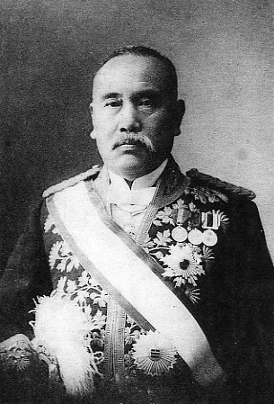 Photograph of Katayama Tokuma, Japanese architect active in the Meiji period. See also ファイル:片山東熊.jpg